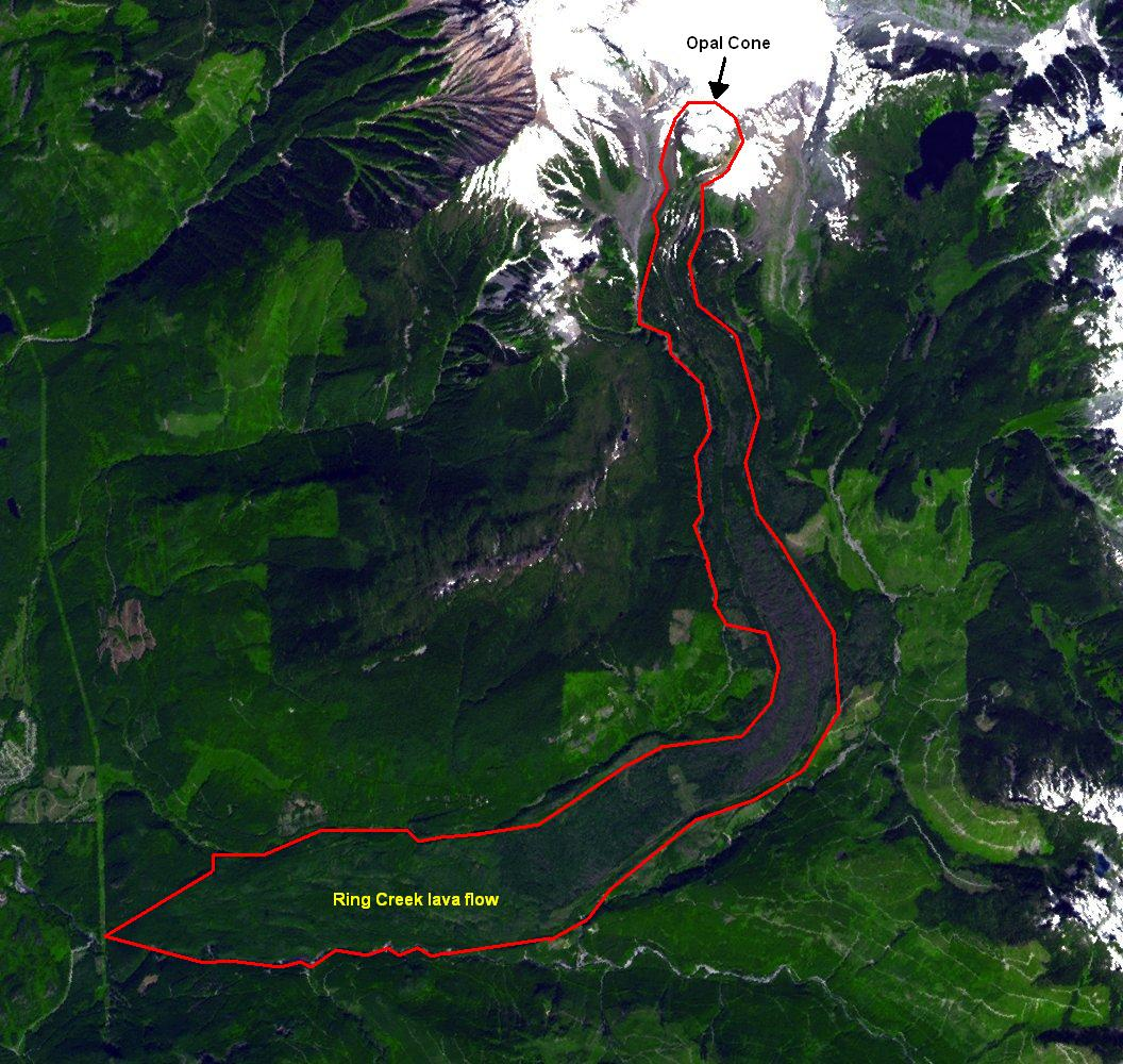 Satellite photo of the Ring Creek lava flow in southwestern British Columbia, Canada